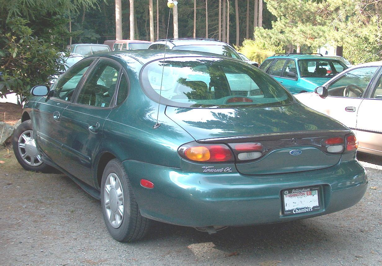 Oval generation Taurus from rear.